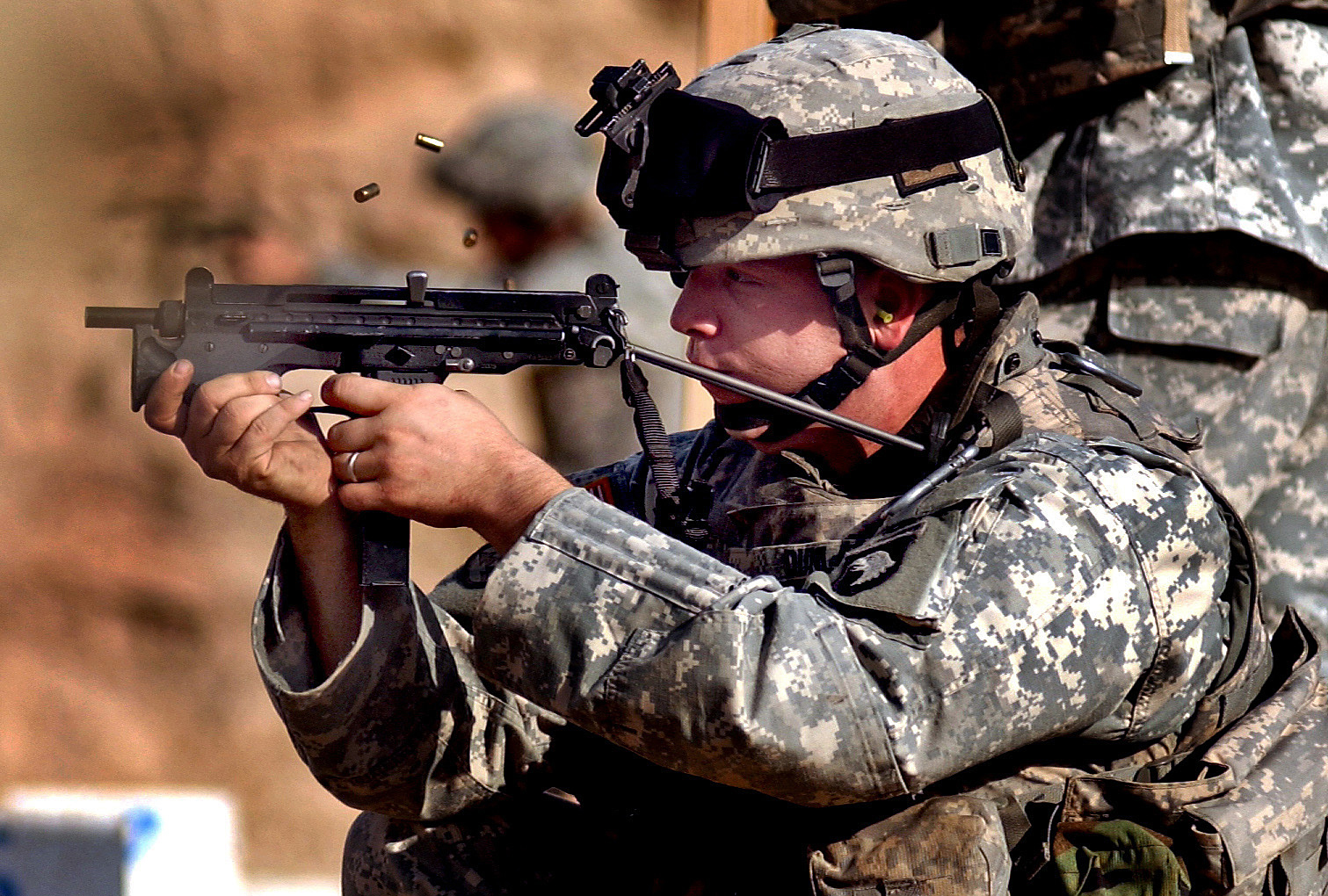 U.S. Army Sgt. Daniel Dunlap familiarizes himself with the operation of a PM-98 9mm sub-machine gun during a live-fire exercise on Forward Operating Base Dagger in Tikrit, Iraq, Aug. 7, 2006. Dunlap is attached to the Military Integrated Transition Team, 101st Airborne Division.